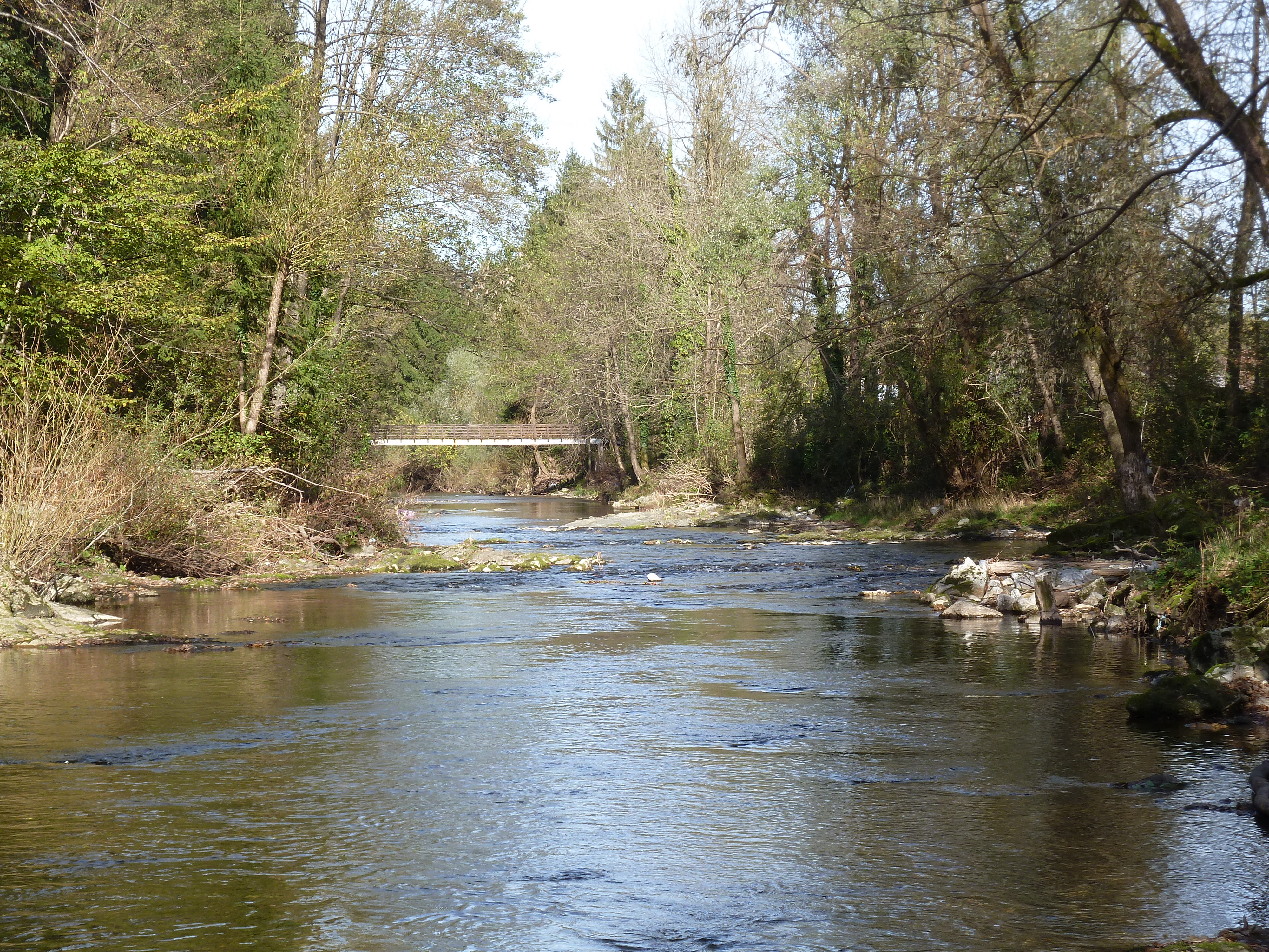 Dreta River at the Pusto Polje village